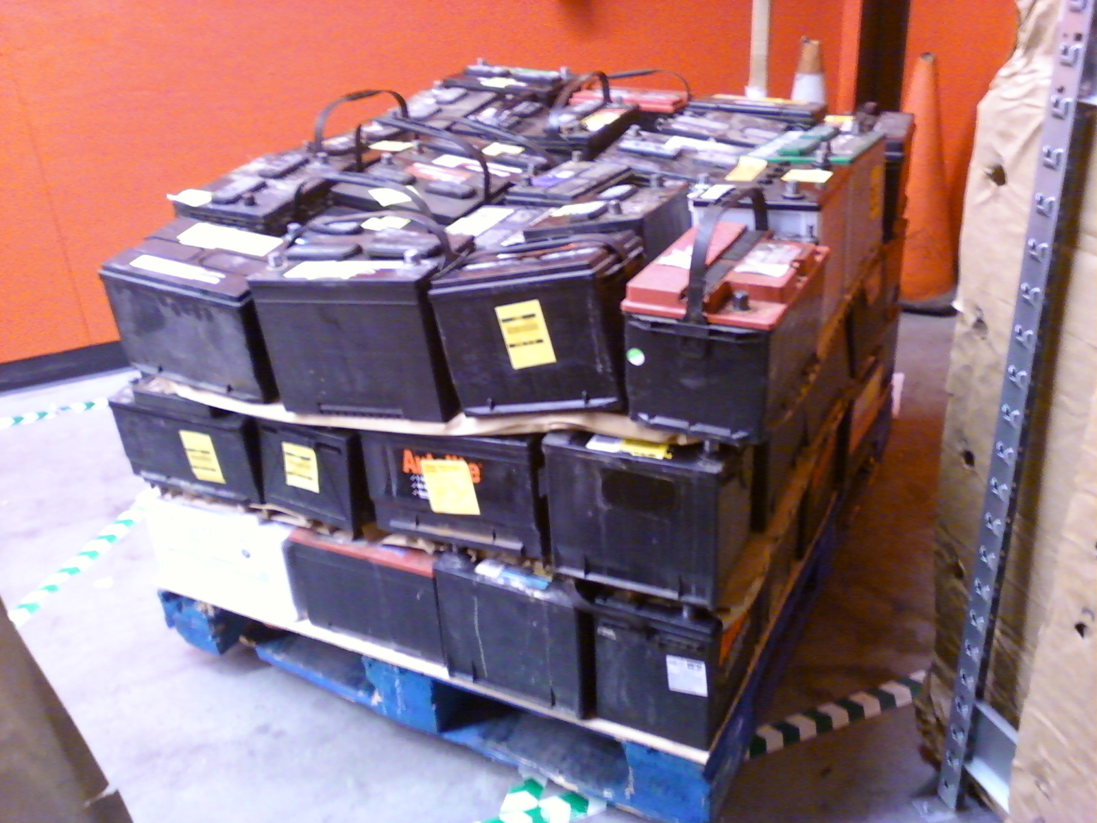 A palletload of used car batteries, collected by Autozone store #4121 (an auto parts retailer) from their customers. This pallet contains approximately 75 batteries, and weighs approximately 2500 pounds. It is in the process of being prepared for interstate truck shipment. It will have a flat sheet of cardboard laid over the top and will be wrapped in plastic cling-film wrap, at which point it will be ready for transport to an Autozone distribution center. Nearly all of the batteries on this pallet were collected as exchanges during the sale of a new battery. 1 or 2 were dropped off by customers in exchange for $5 store credit. One battery was left by a customer for charging and testing, who never returned to pick it up. All the batteries on this pallet failed a load test at the output for which they were rated. The load tests were performed by an Autometer BVA-200s battery tester, after a 50 Amp quick charge (if necessary).